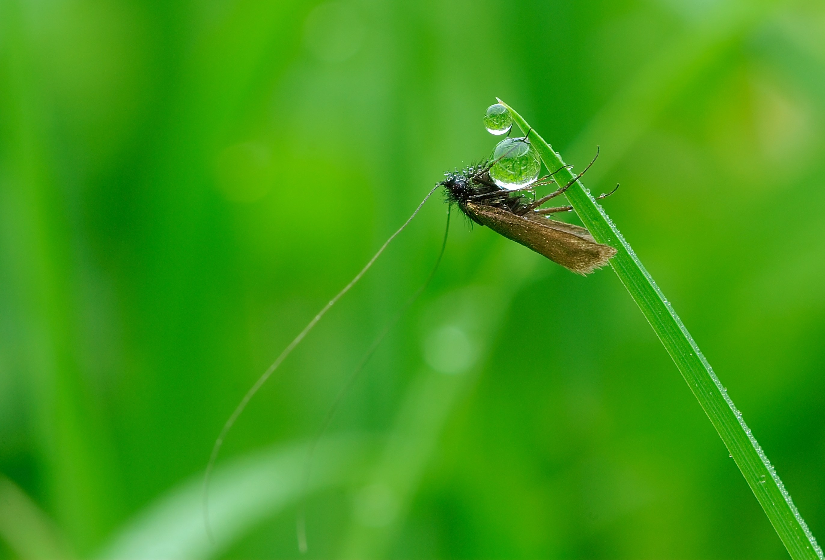 Adela reaumurella in Belgium natural reserve "Marie Mouchon"